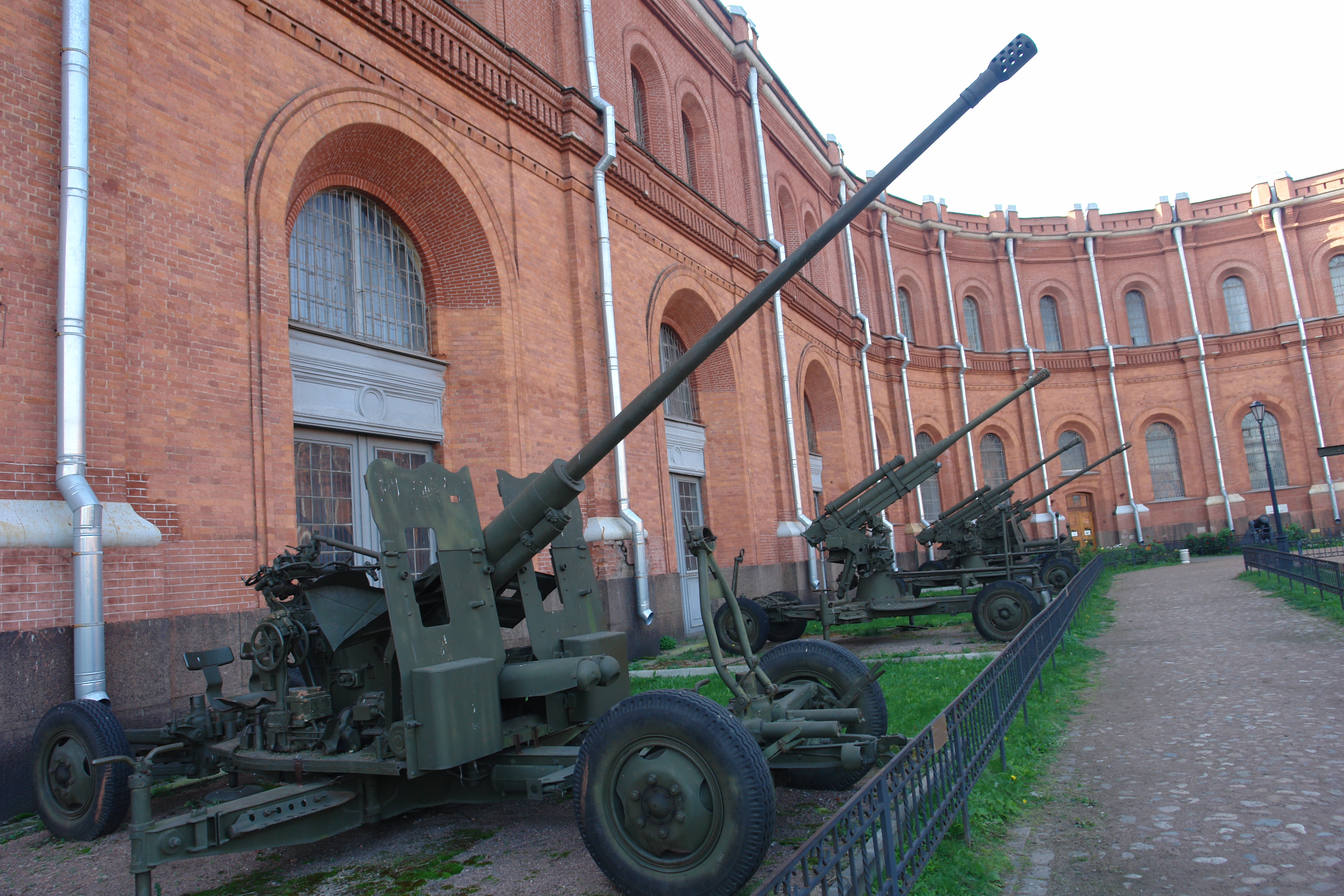 War-History Museum artillery, engineered by Voisk and Voisk Company, Saint Petersburg.